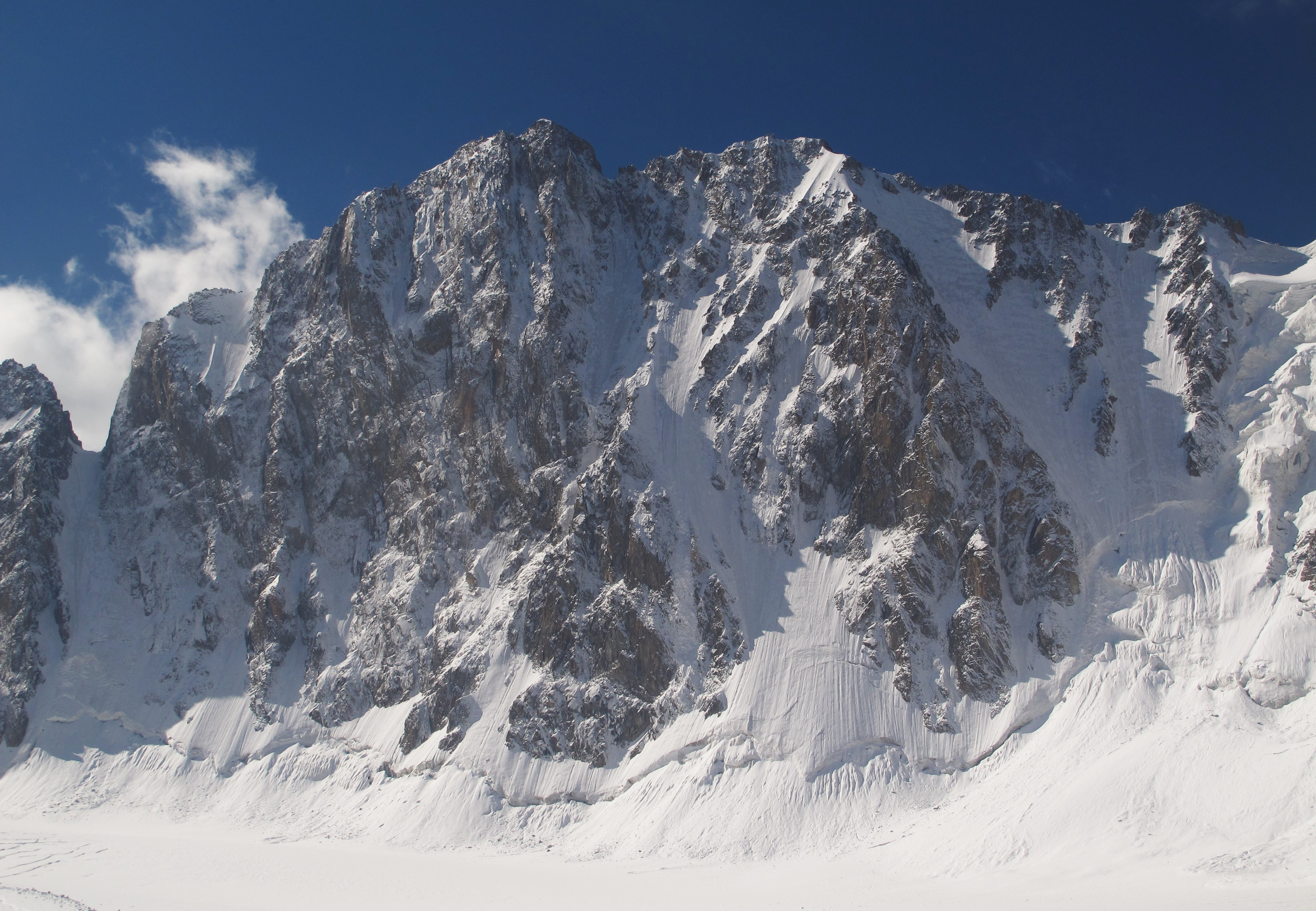 Peak Free Korea (4777,6 m) north face from Ak-Sai Glacier